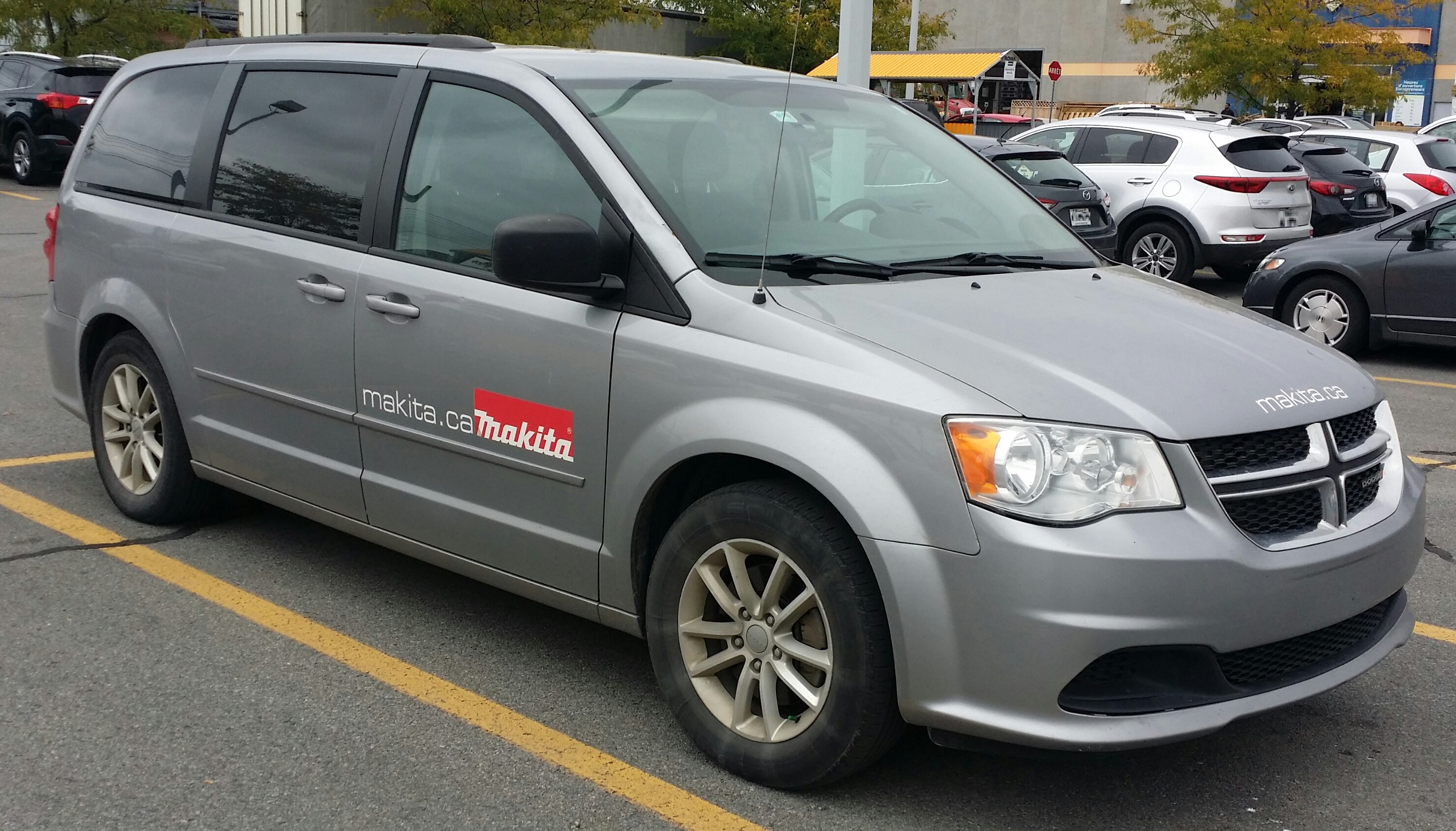 Dodge Grand Caravan Makita photographed in Montréal, Québec, Canada.